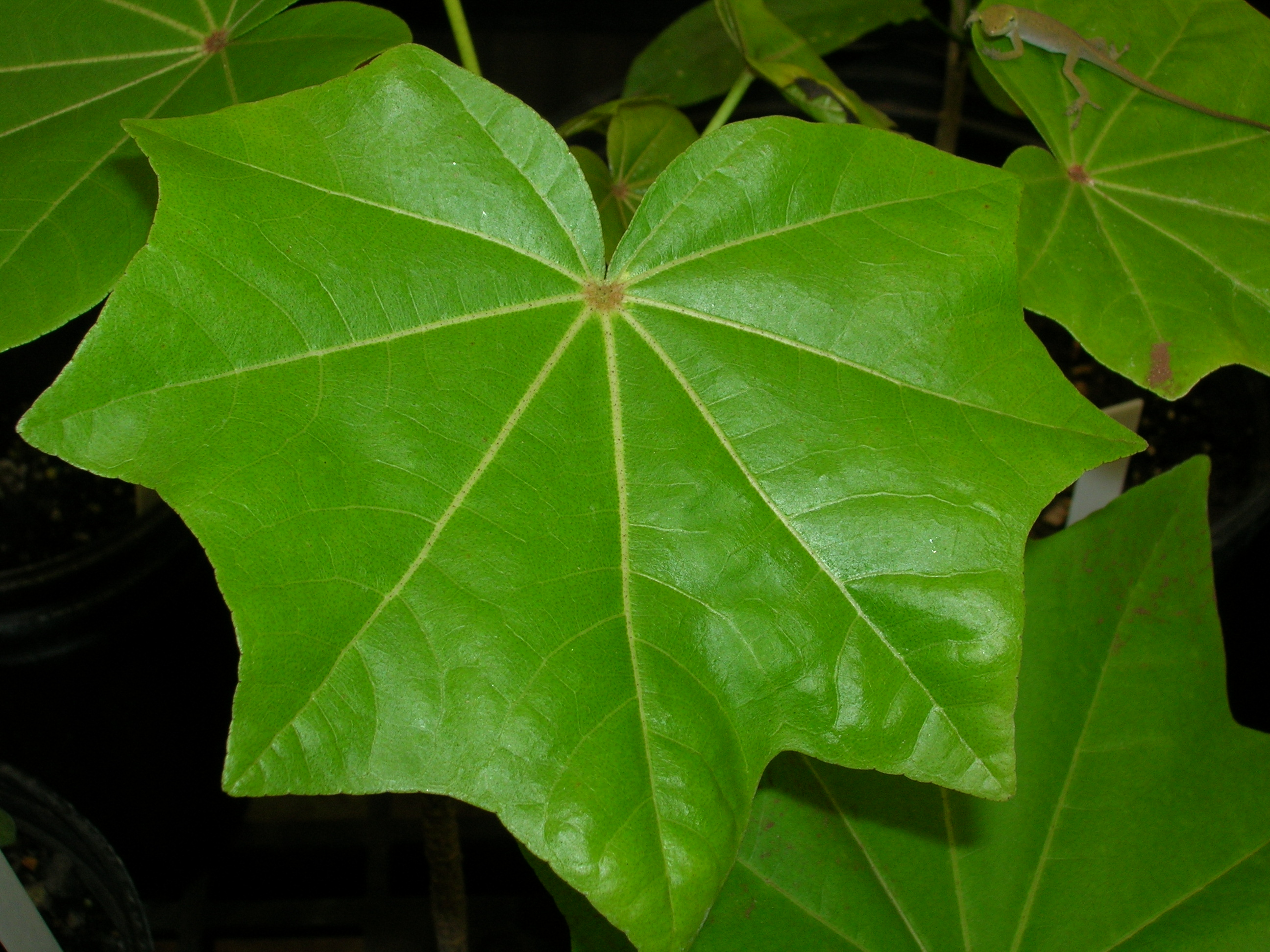 Kokia cookei (leaf). Location: Maui, DLNR baseyard Kahului